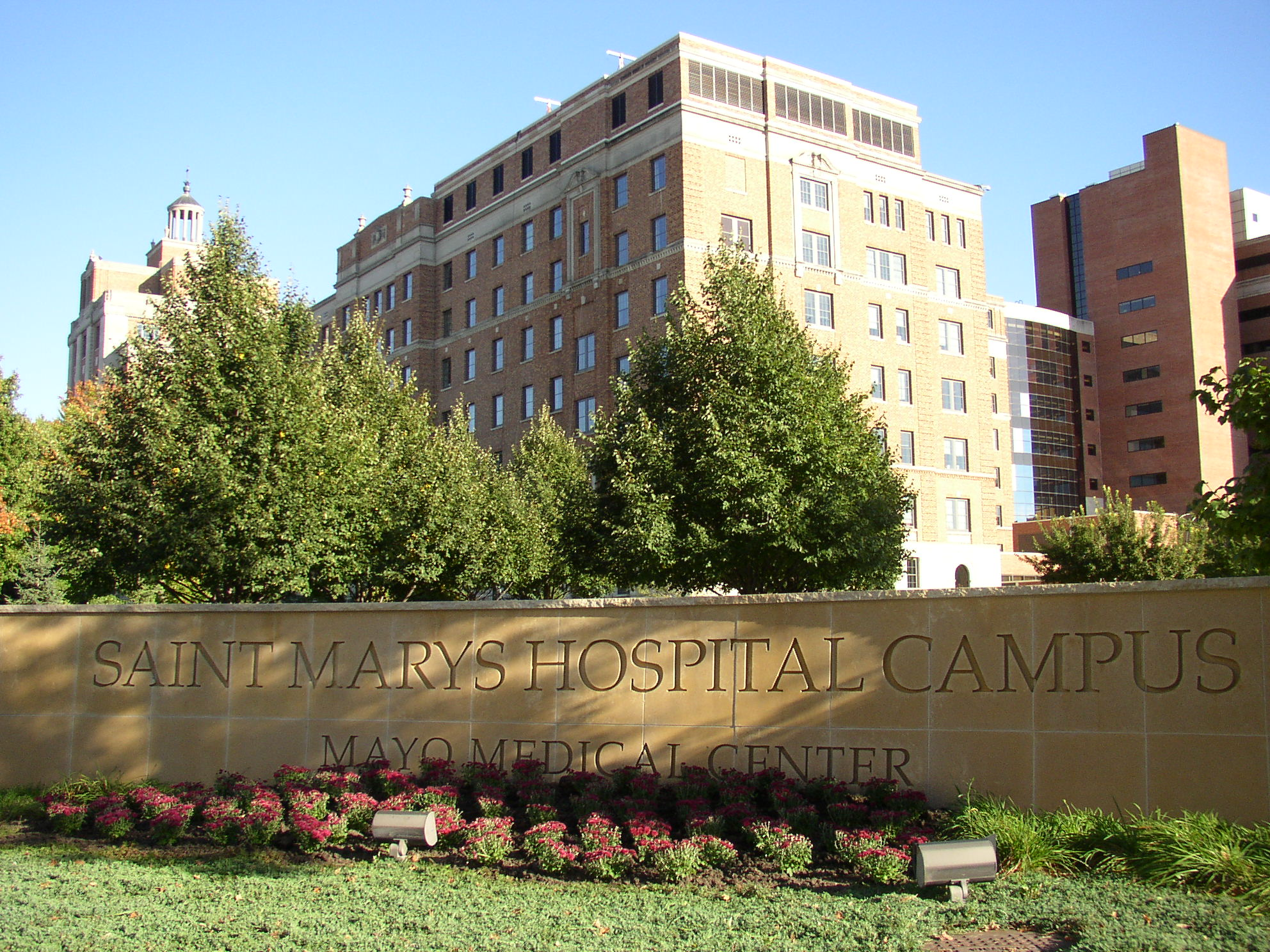 Mayo Clinic's Saint Mary's Hospital in Rochester, Minnesota, with stone marker in foreground. I, User:Knowledge Seeker, took this photograph on September 27, 2005.